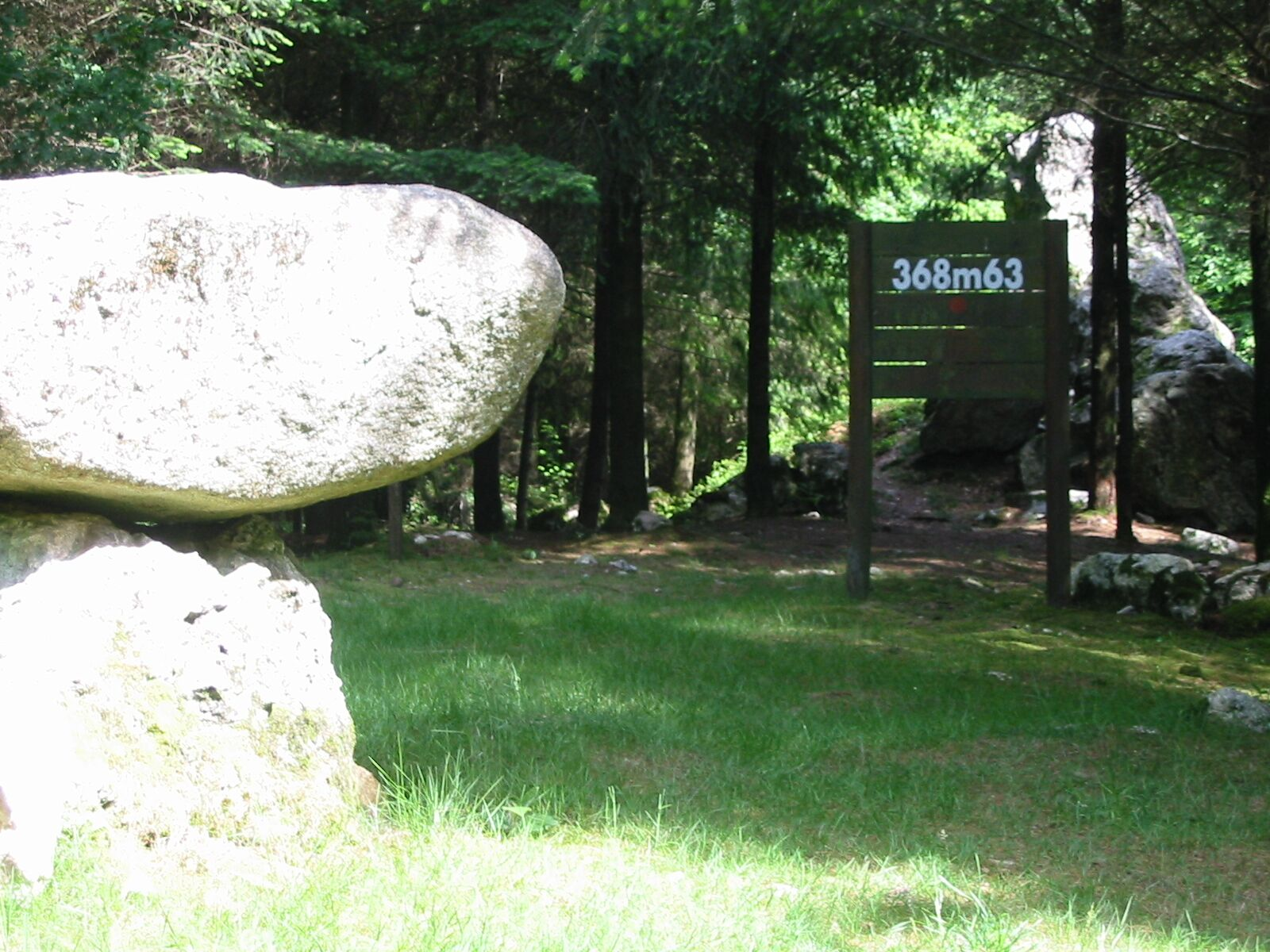 368m, hightest point of Charente, Montrollet, SW France